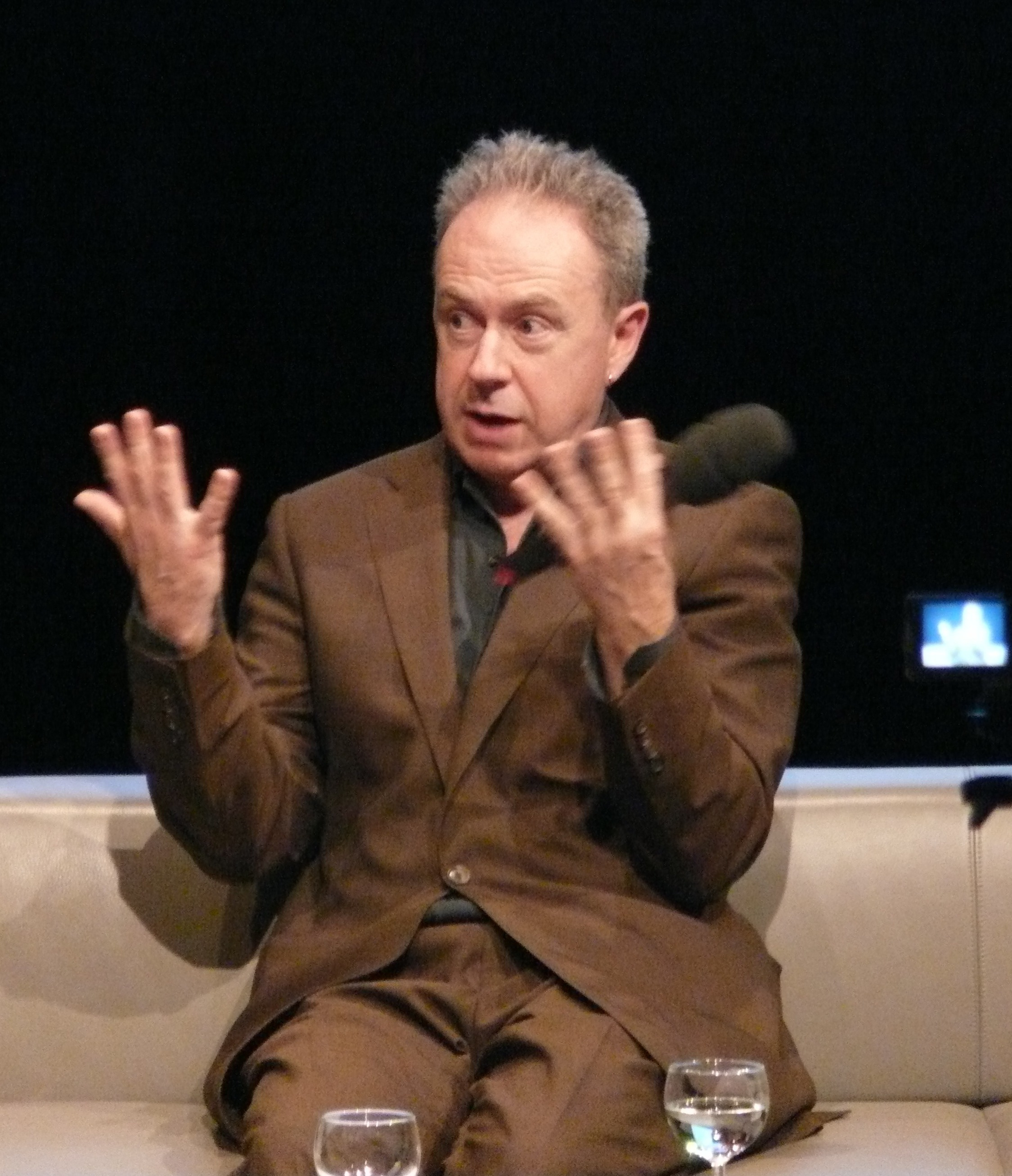 Jem Finer in conversation with David Link, in transmediale 10 "The Futurity Long Conversation"